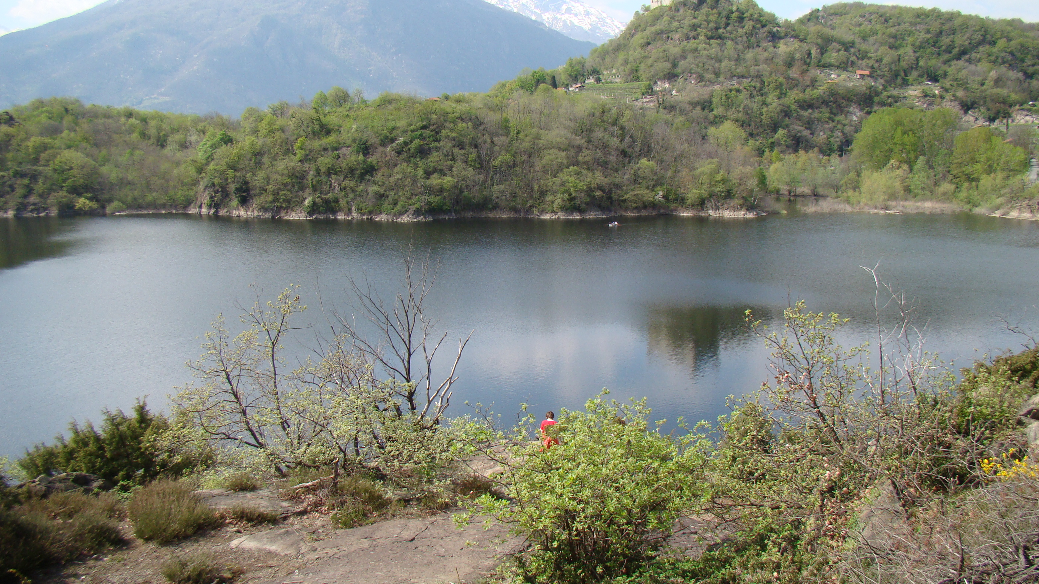 Lake Pistono (Montalto, Piedmont, Italy) wide view.